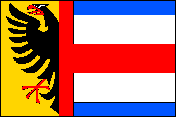 Municipal flag of Svémyslice , District Prague-East, Czech Republic